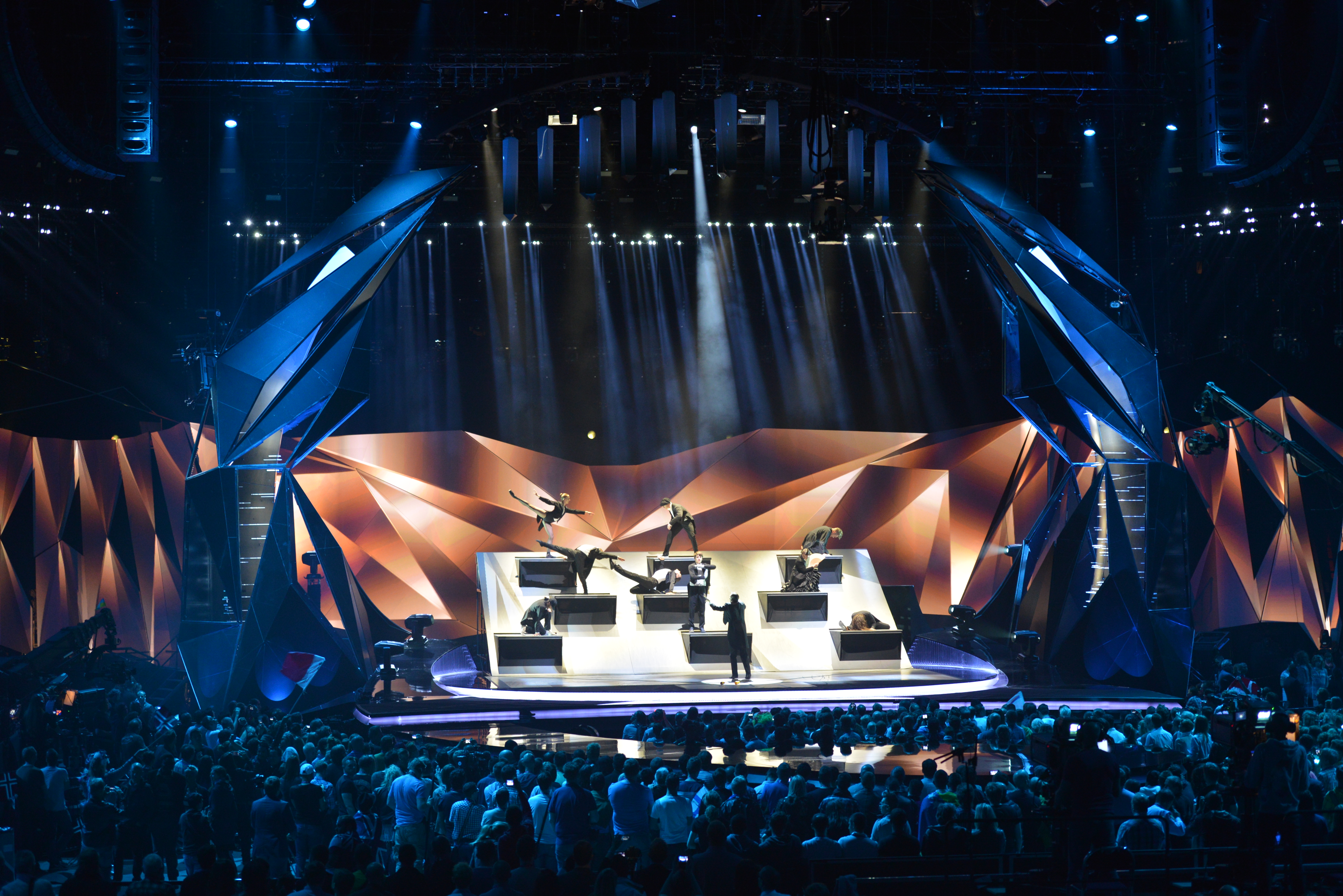 The opening act of the second semi final, during the second dress rehearsal in the Eurovision Song Contest 2013 in Malmö. (Help translate this text)